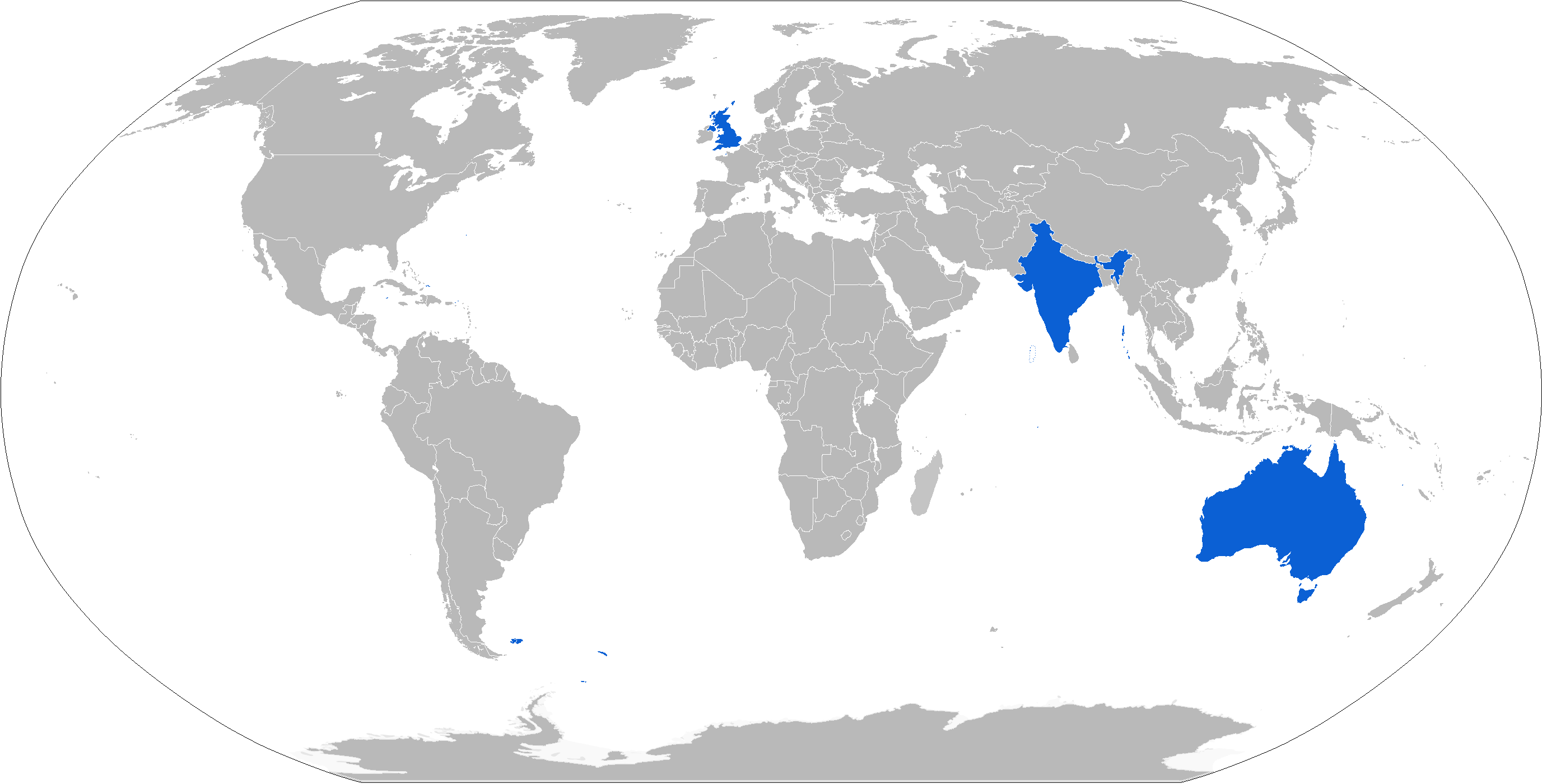 Map with ASRAAM operators in blue